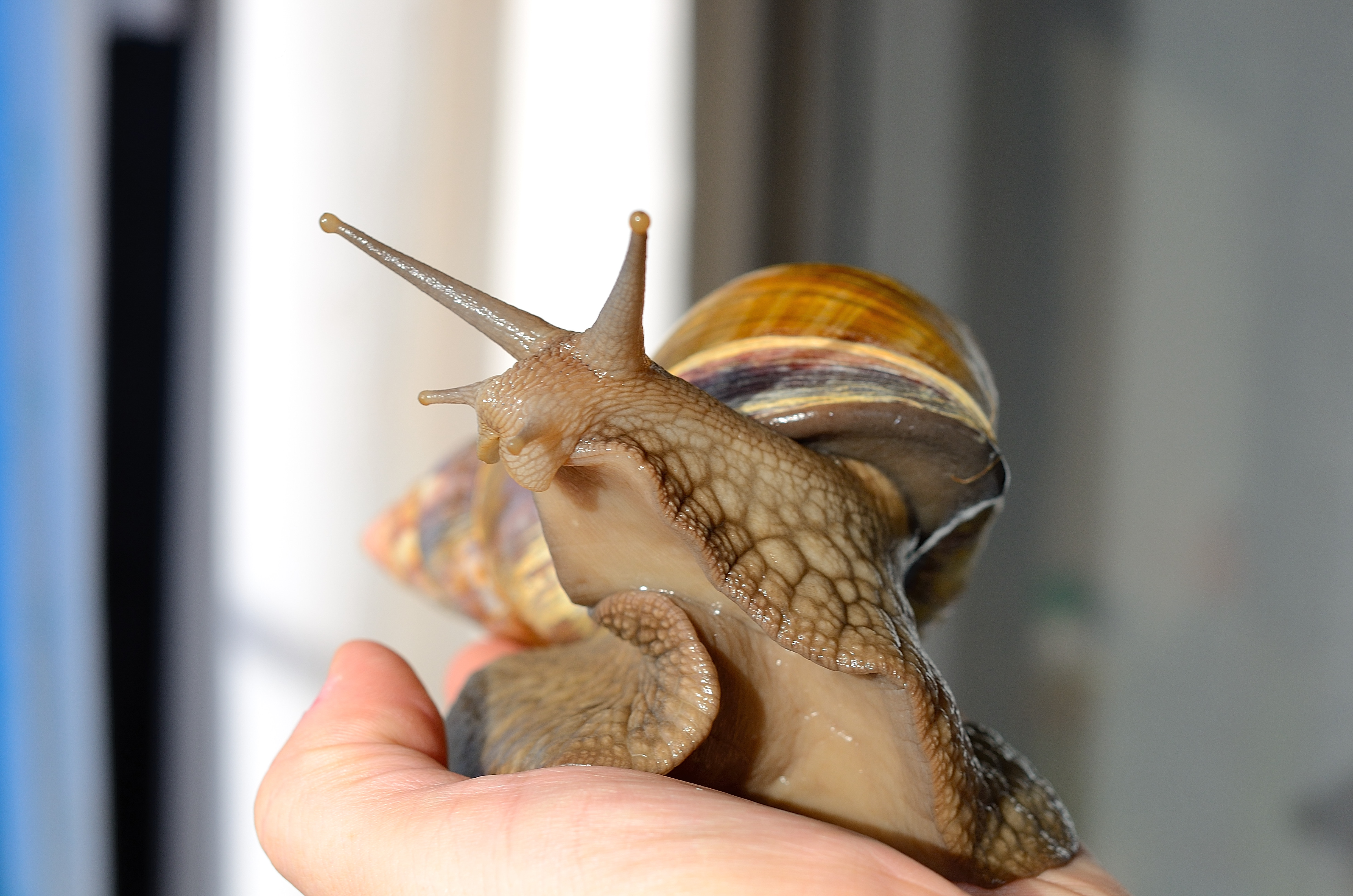 The giant Achatina, length 20 cm, age about 3 years